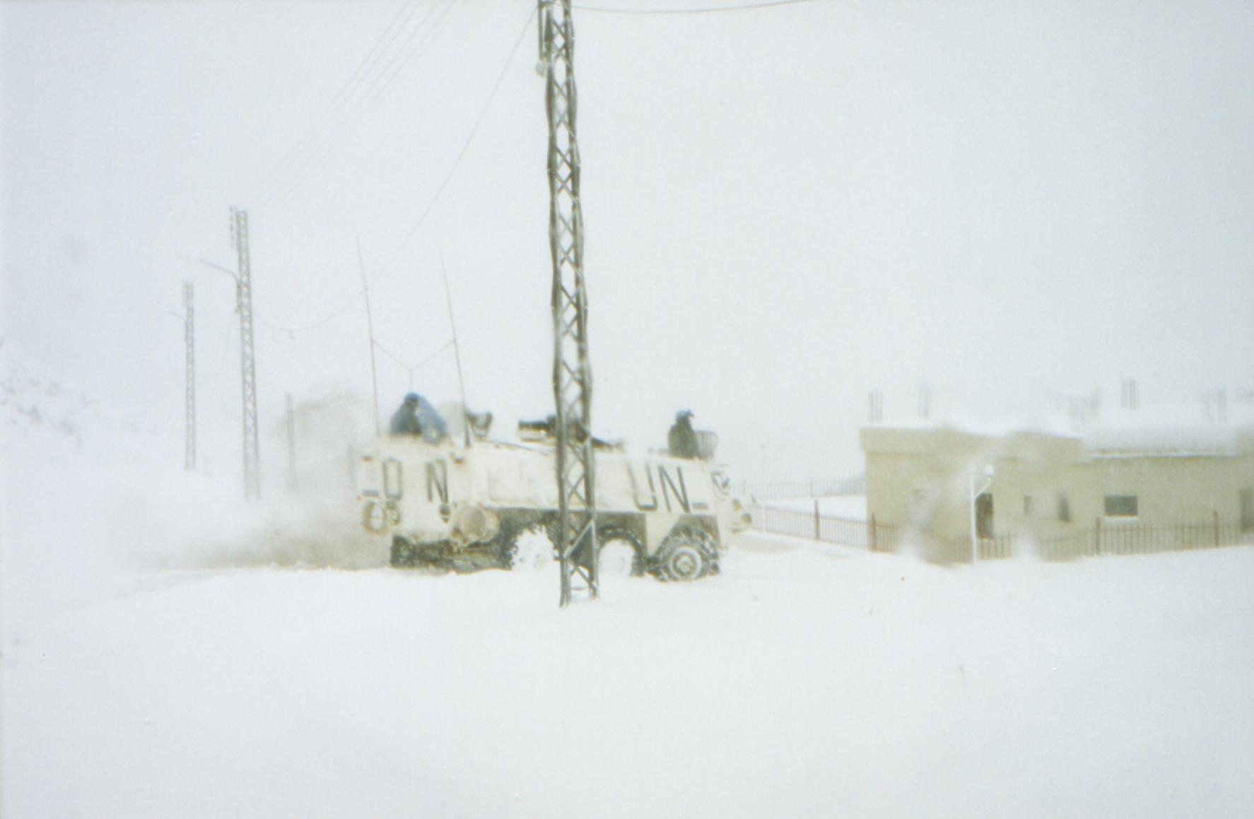 Sisu in the snow, close to the israeli border in South-Lebanon. Picture taken by myself H. Dahlmo(UTC) in 1998.